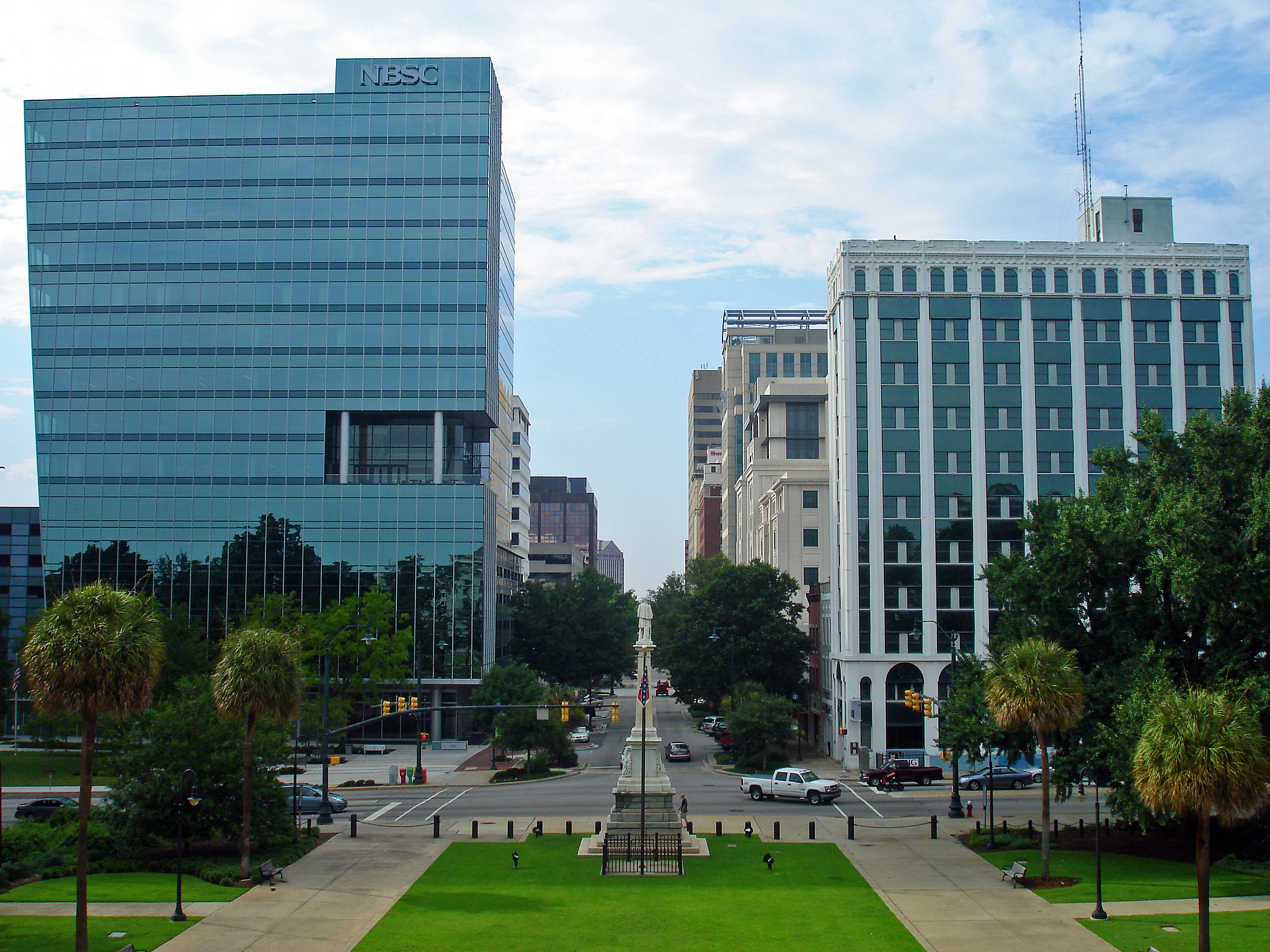 Looking down Main Street from the South Carolina Statehouse steps, downtown Columbia, South Carolina, USA